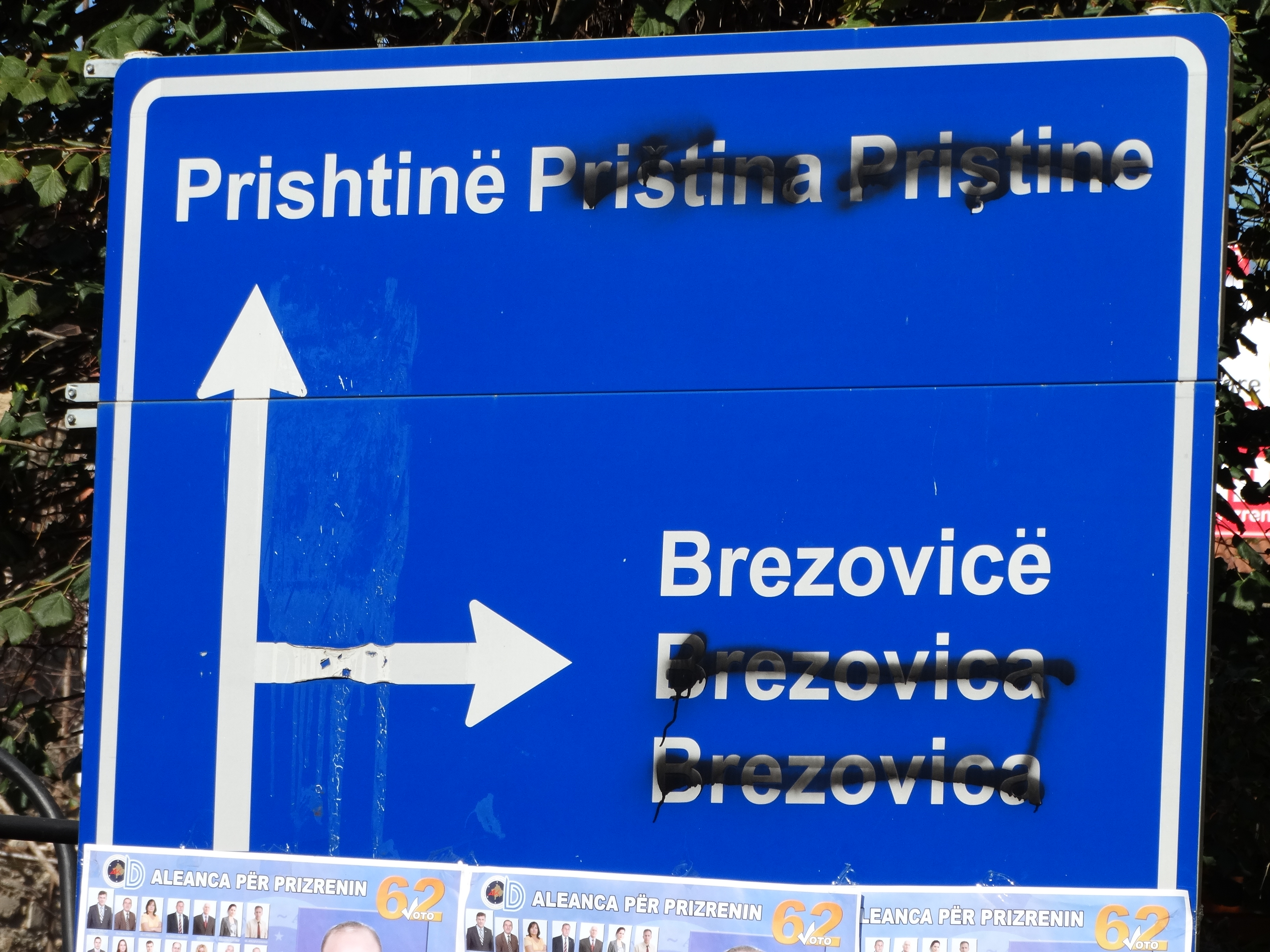 Road Sign with Serbian and Turkish Names Painted Out - Prizren - Kosovo